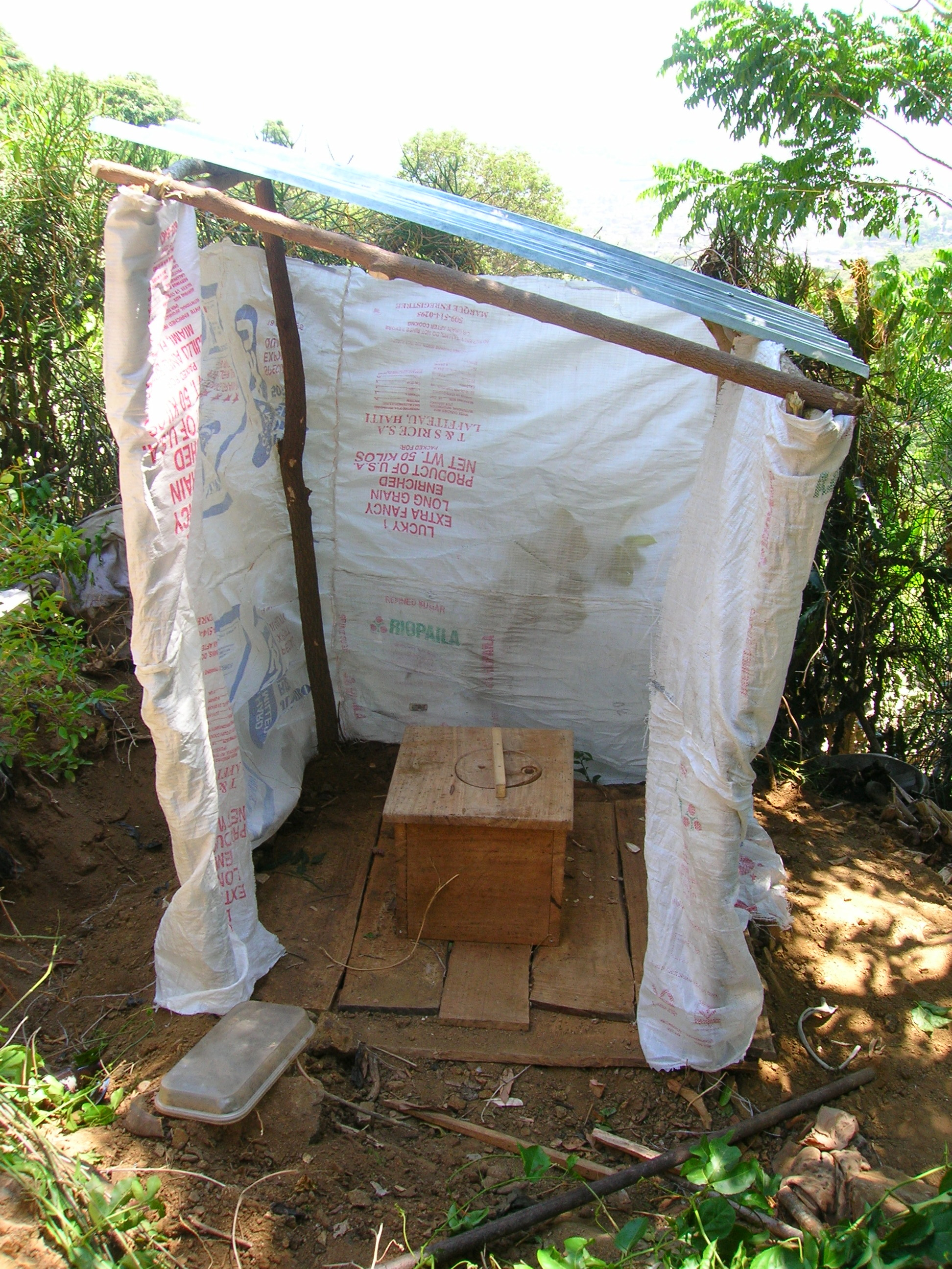 An ecological toilet, type Arborlo, in Mansui (Cap-Haitien, Haiti), self-built by the owner.